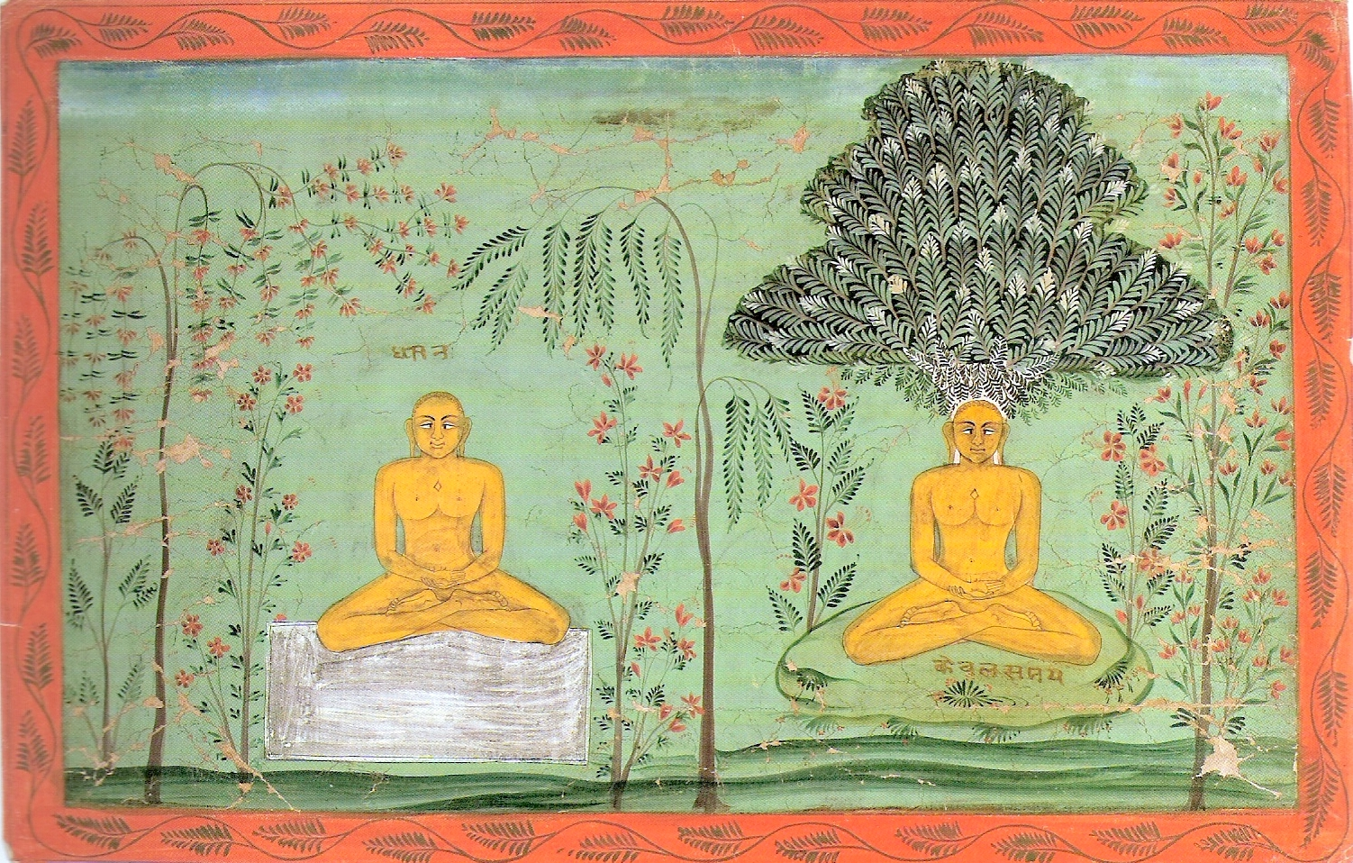 Painting showing Rsabha's Enlightenment or Kevala Jnana. From Pancakalyanaka of Rsabha series. Amber, Rajasthan c. 1680.